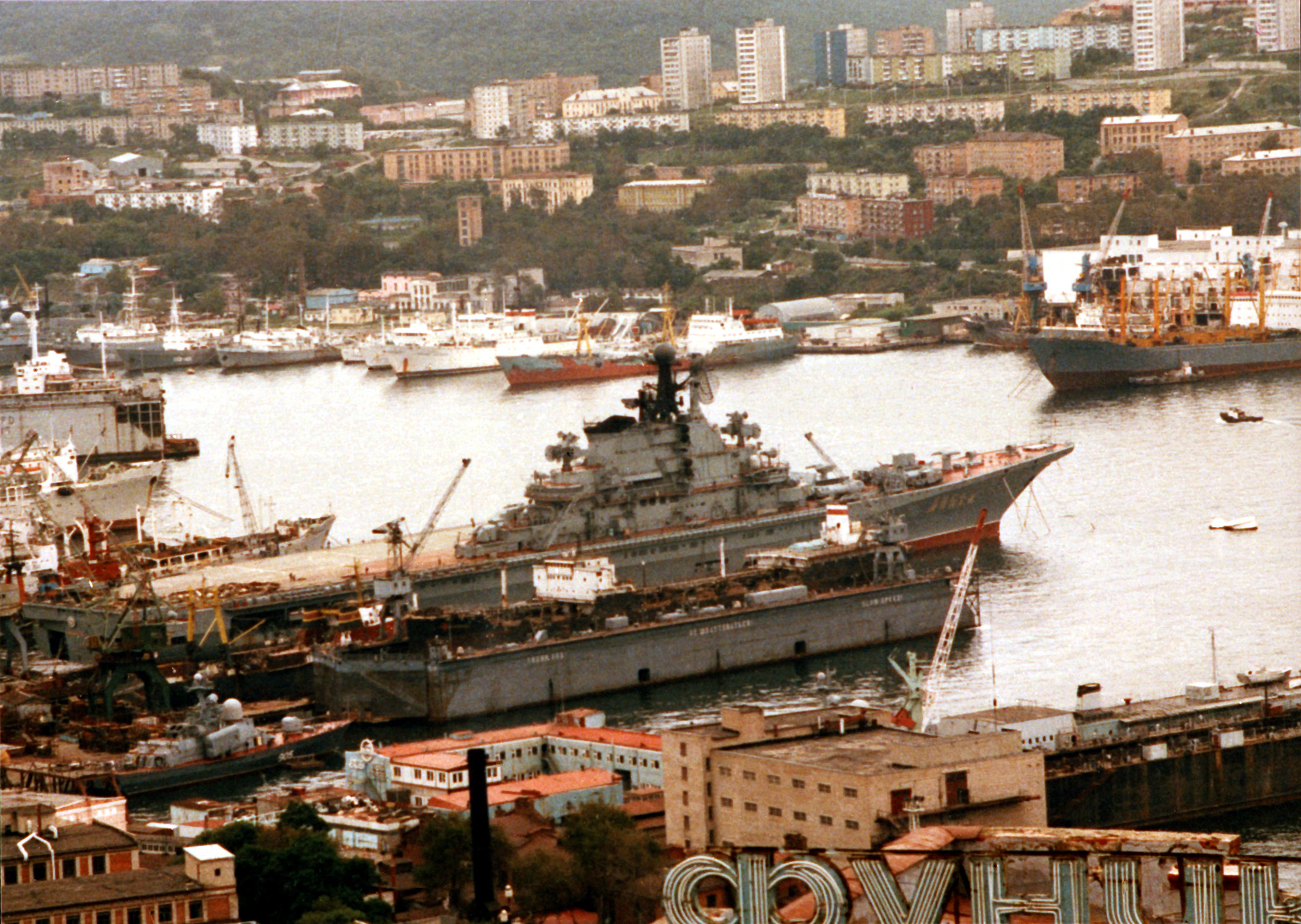 A view of the Soviet Kiev class aircraft carrier MINSK, center, and other Soviet naval and merchant ships tied up in the city's harbor. The Minsk is in Vladivostok for repairs.